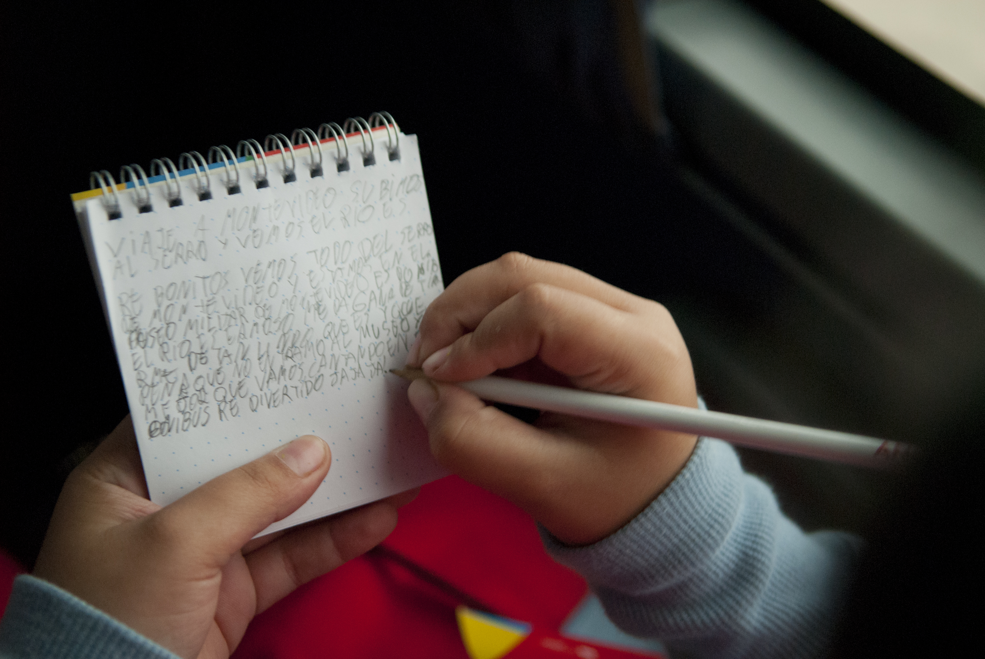 On April 3 of 2011 the Opening Ceremony of the Celebration of the Instructions of the Year XIII was held in Uruguay. The event was framed in the commemoration of the Bicentennial of Uruguay, which took place during that year. The ceremony took place in Montevideo, attended by more than 500 children from 19 schools across the country. This photograph was taken by Karin Porley von Bergen for the Secretariat of the Bicentennial, which is attached to the Bicentennial Commission, which, in turn is made up of officials from all political parties, various ministries and agencies of Uruguay.